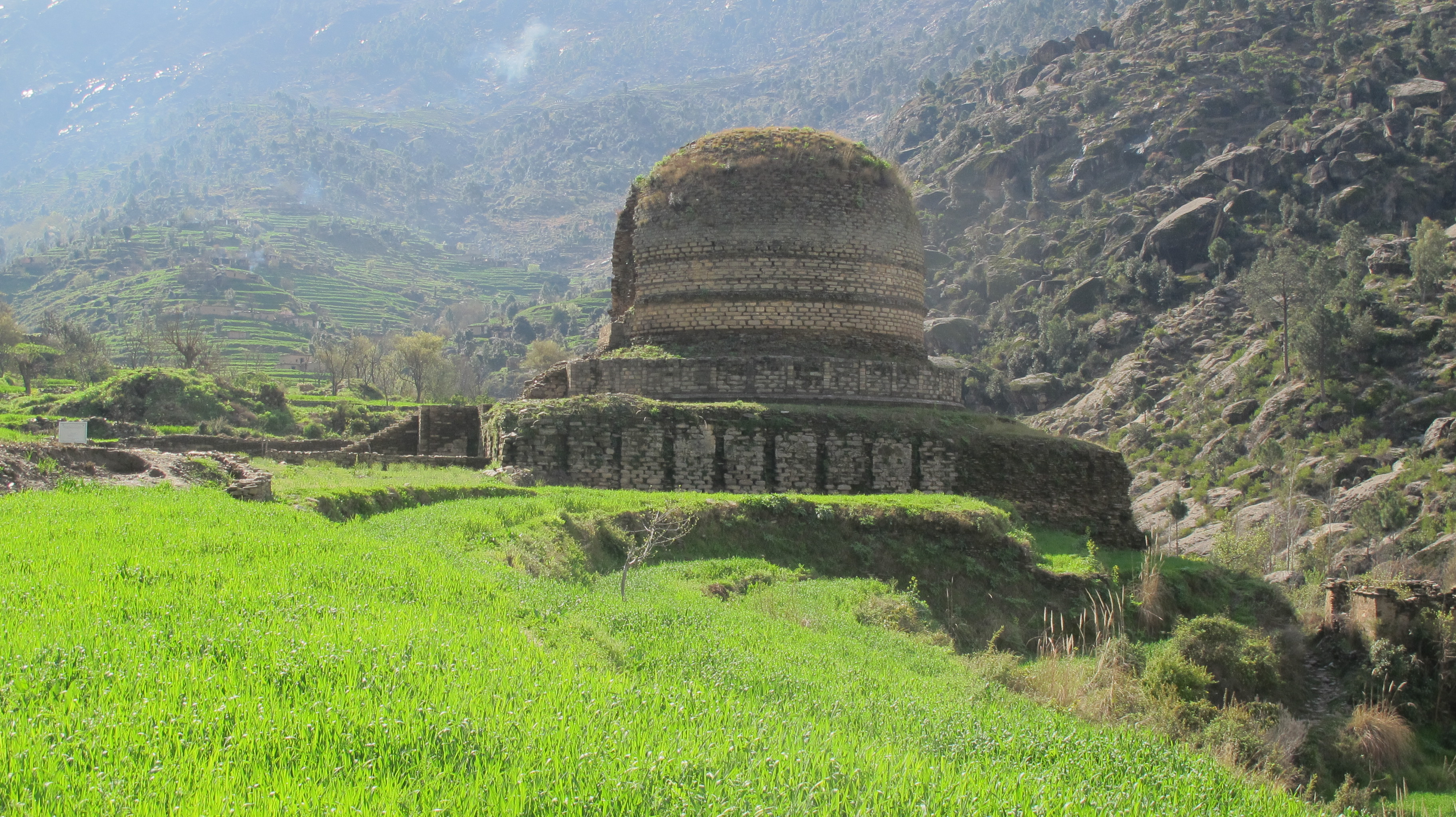 Amlukdara stupa This is a photo of a monument in Pakistan identified as the KPK-77